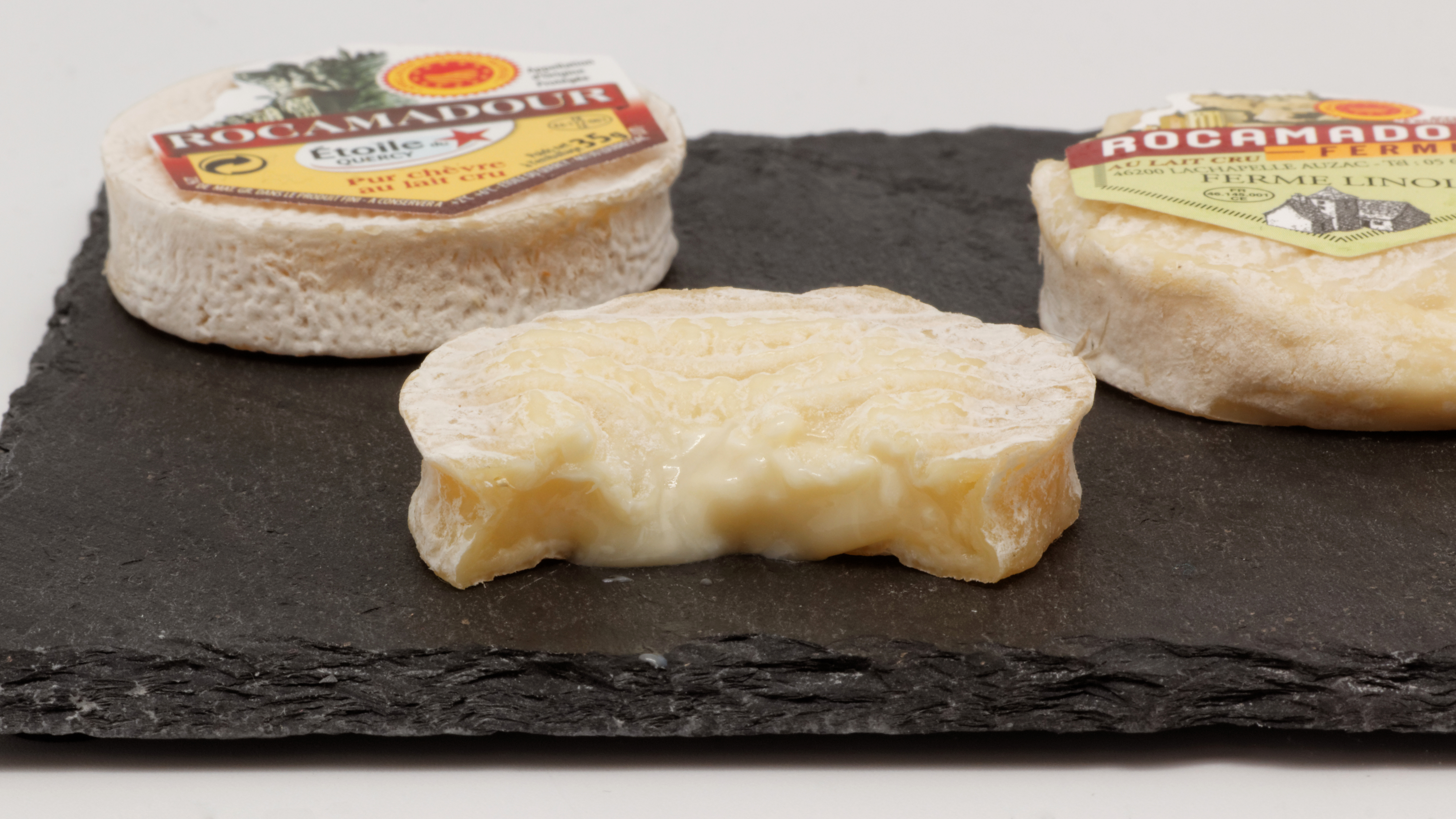 Rocamadour